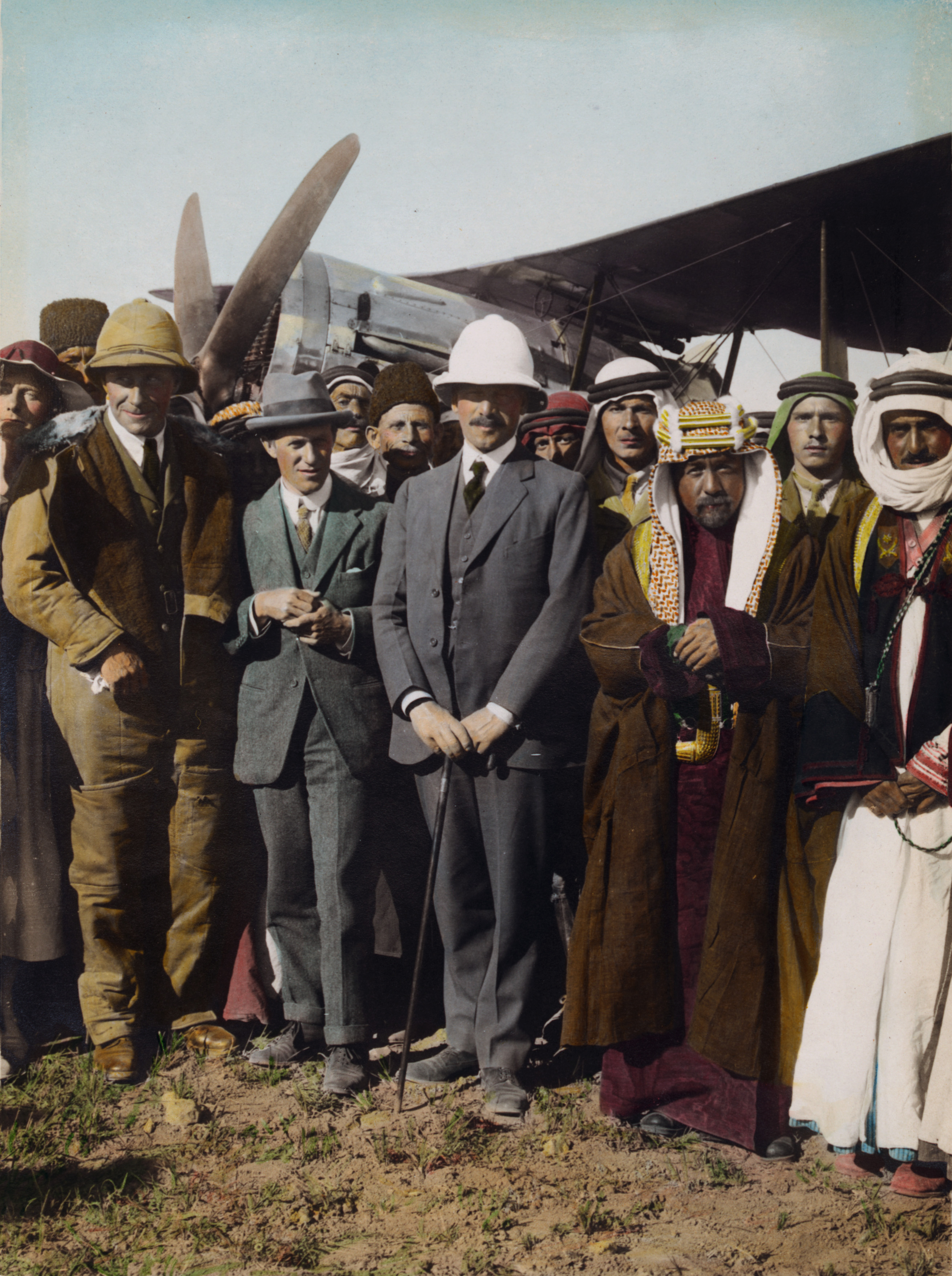 On the Aerodrome at Amman. Col. Laurence [T.E. Lawrence, a.k.a. Lawrence of Arabia]. Sir Herbert Samuel. Amir Abdullah. Photograph by unnamed American Colony Jerusalem Photo Dept. photographer also shows a woman, possibly Gertrude Bell, at left and Sheik Majid Pasha el Adwan at far right. April, 1921. In album: Meetings of British, Arab, and Bedouin officials in Amman, Jordan, April 1921, p. 27, no. 13. From the American Colony Jerusalem Collection at the U.S. Library of Congress. More pictures from the American Colony Jerusalem [PD] This picture is in the public domain.